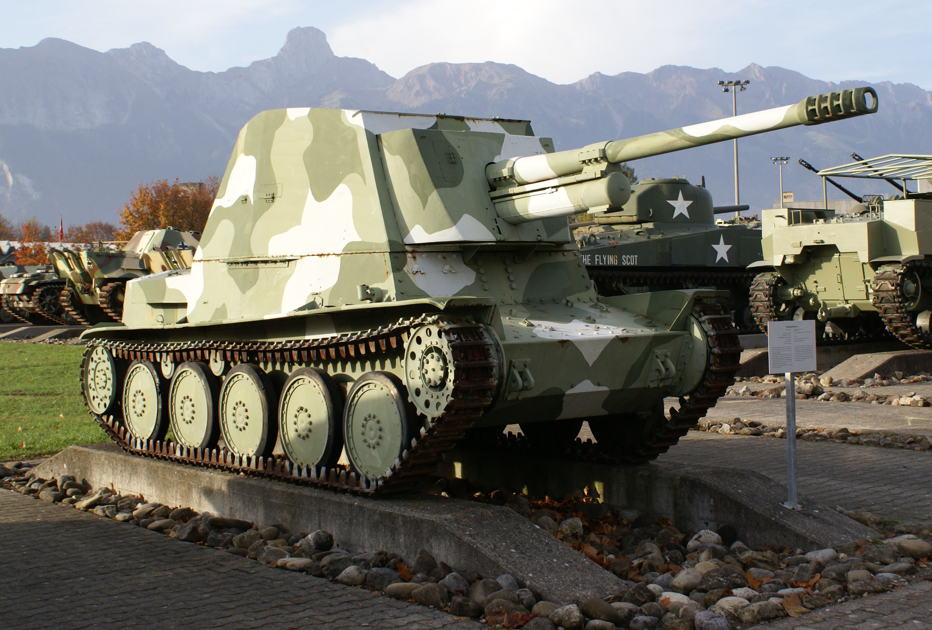 Swiss Army. Close Combat Gun I, prototype, 1943. Tank Museum Thun.